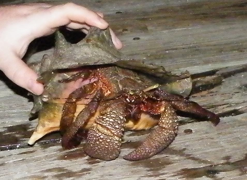 Giant hermit crab (Petrochirus diogenes) I caught off the coast of Belize